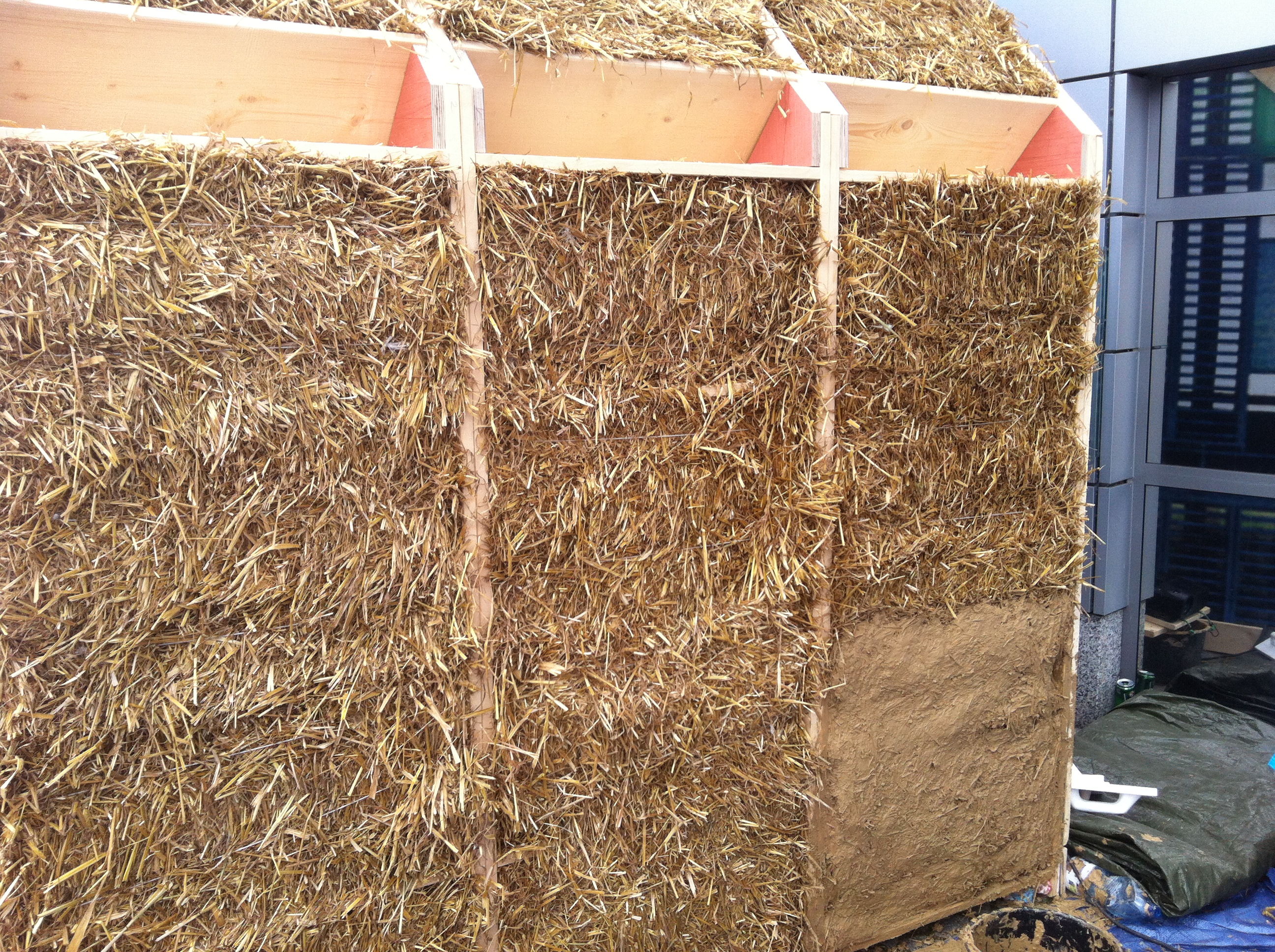 Straw bale wall covered partially with clay.